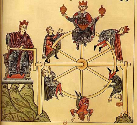 a miniature image of the alsace manuscript book Garden of Delights by Herrad of Landsberg (XIIth century)